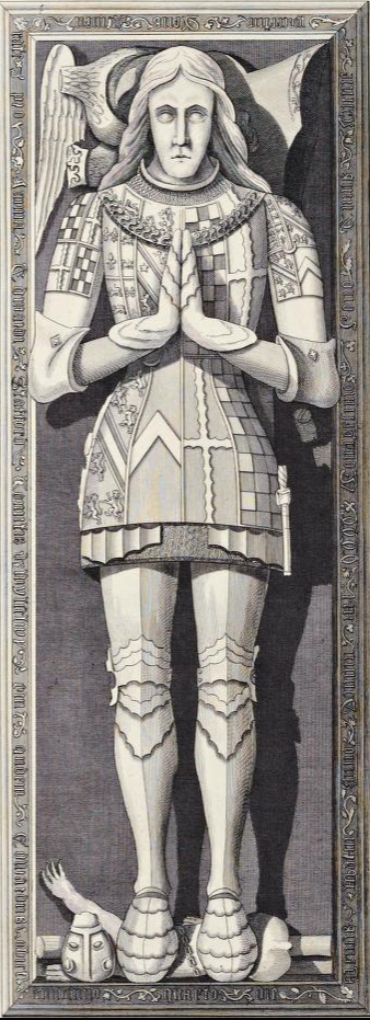 Edward Stafford, 2nd Earl of Wiltshire (d.1499), of Drayton, Lowick, Northants, in Lowick Church. The arms on the sinister side of his tunic are not those of his wife (Margaret Grey, the daughter of Edward Grey, Viscount Lisle, by Elizabeth Talbot, suo jure Baroness Lisle of Kingston Lisle), as might be expected. His relative GREEN, Ralph (c.1379-1417), MP, of Drayton, Northants and Sir John Dallingridge, MP, appeared before the King’s tent to obtain a final settlement of their dispute over the right to bear arms ‘d’argent ove une croice engreilé de gules’. Dallingridge impulsively offered single combat to decide the issue ‘sauns pluis estre delaié’; but Green, who seems to have been rather more cautious, wanted Henry IV himself to make an award. Intent upon keeping the peace among his retainers, Henry decreed that both should bear the coat of arms until the case could receive a proper hearing before the constable and marshal of England. (text from:[1])